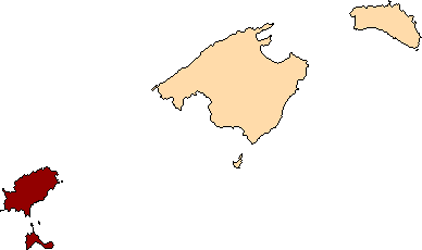 Location of the Pitiüsses